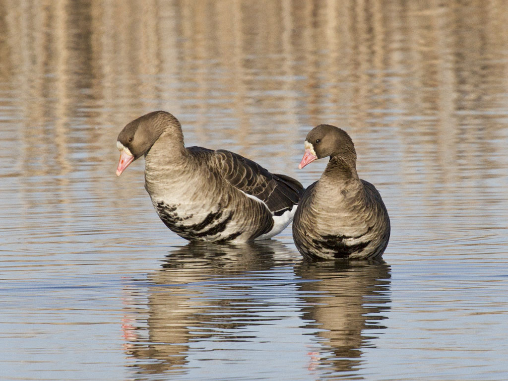 Anser albifrons sponsa. Colusa National Wildlife Refuge, Colusa Co., California, USA.